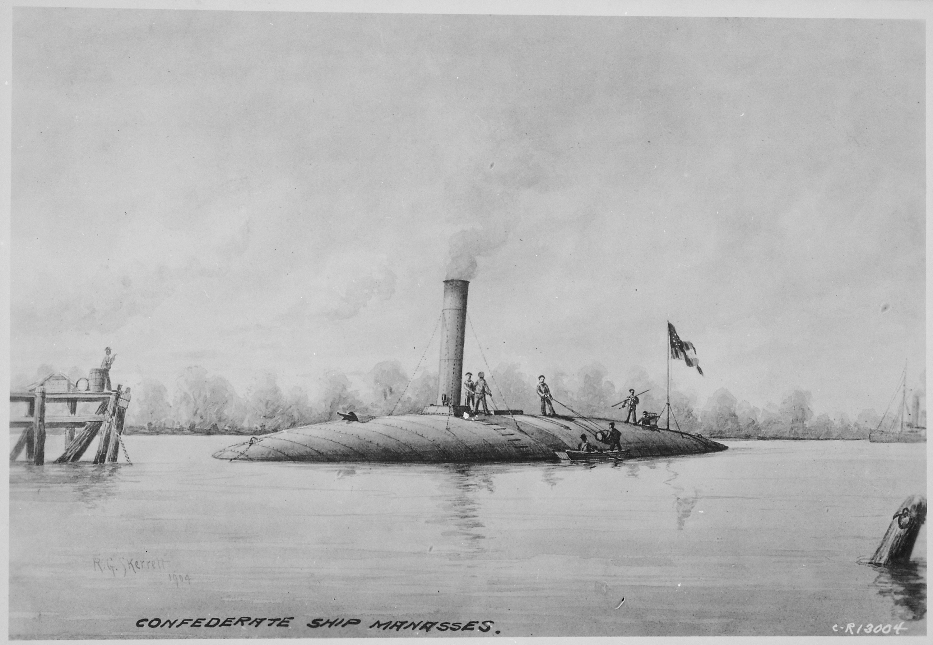 General notes: Artwork